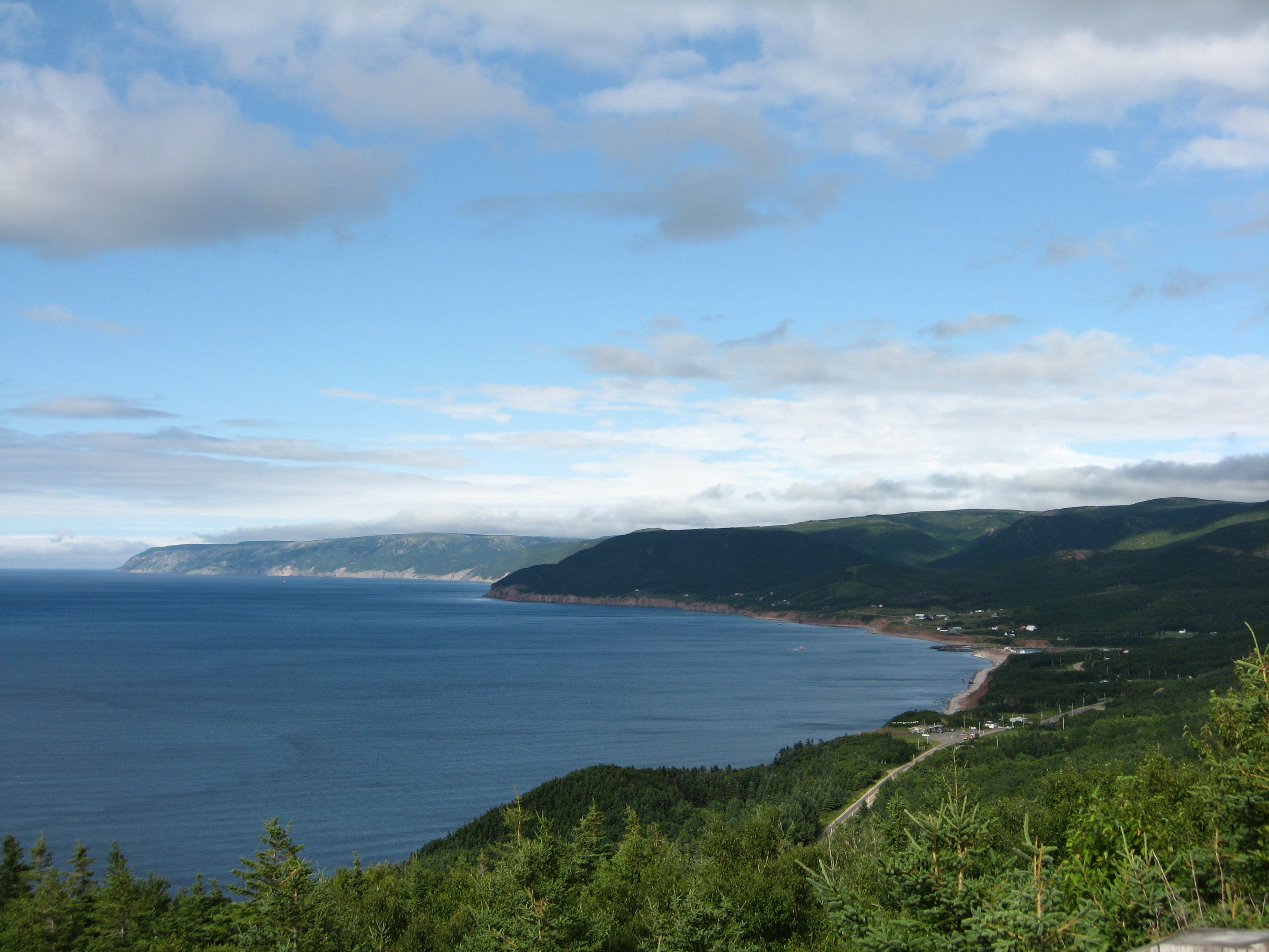 View of Pleasant Bay from a lookout on the Cabot Trail. Nova Scotia, Canada.